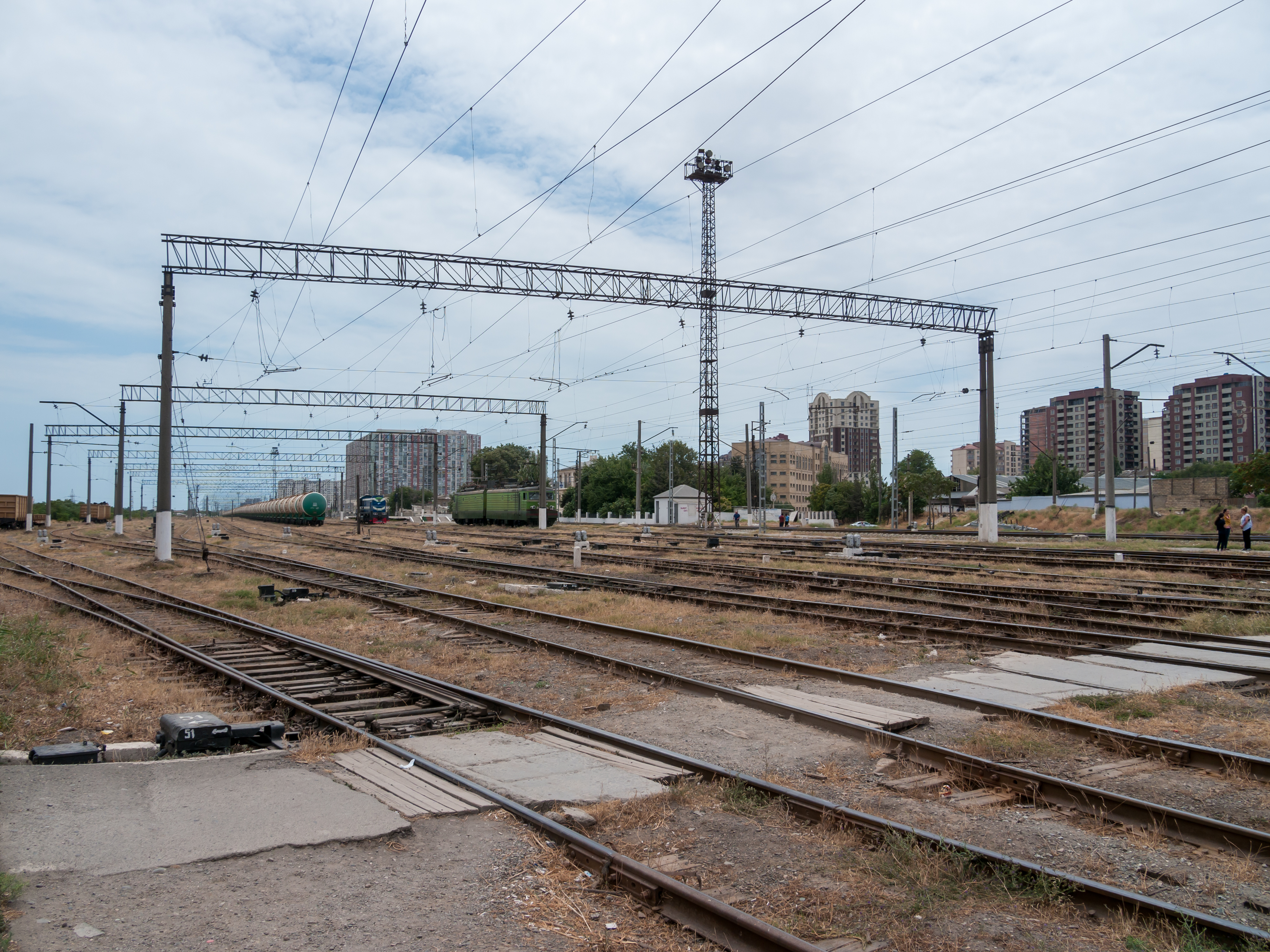 Freigh rail yard in Baku, Azerbaijan